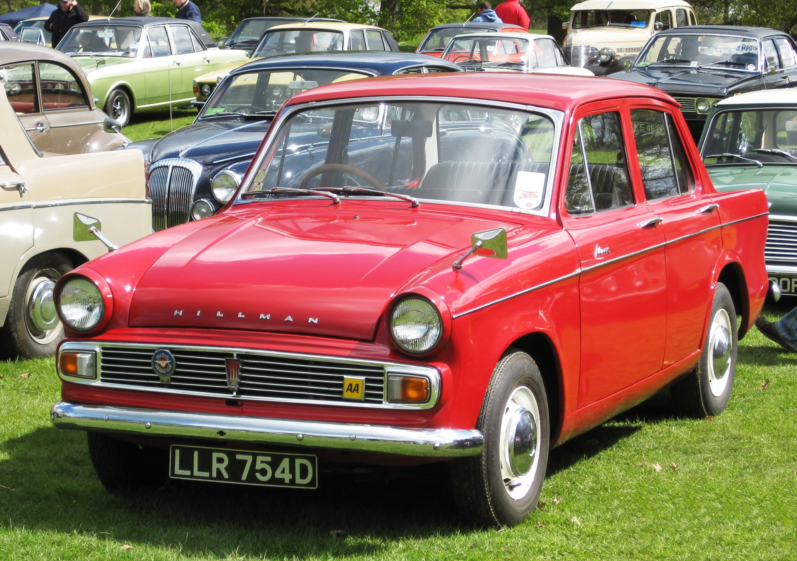 Hillman Minx series VI From the outside the car is hard to distinguish from the Minx series V, but the removal of over-riders from the bumpers will have shaved a few pennies off the cost. Under the bonnet the car now featured the larger Rootes 1725 cc engine.